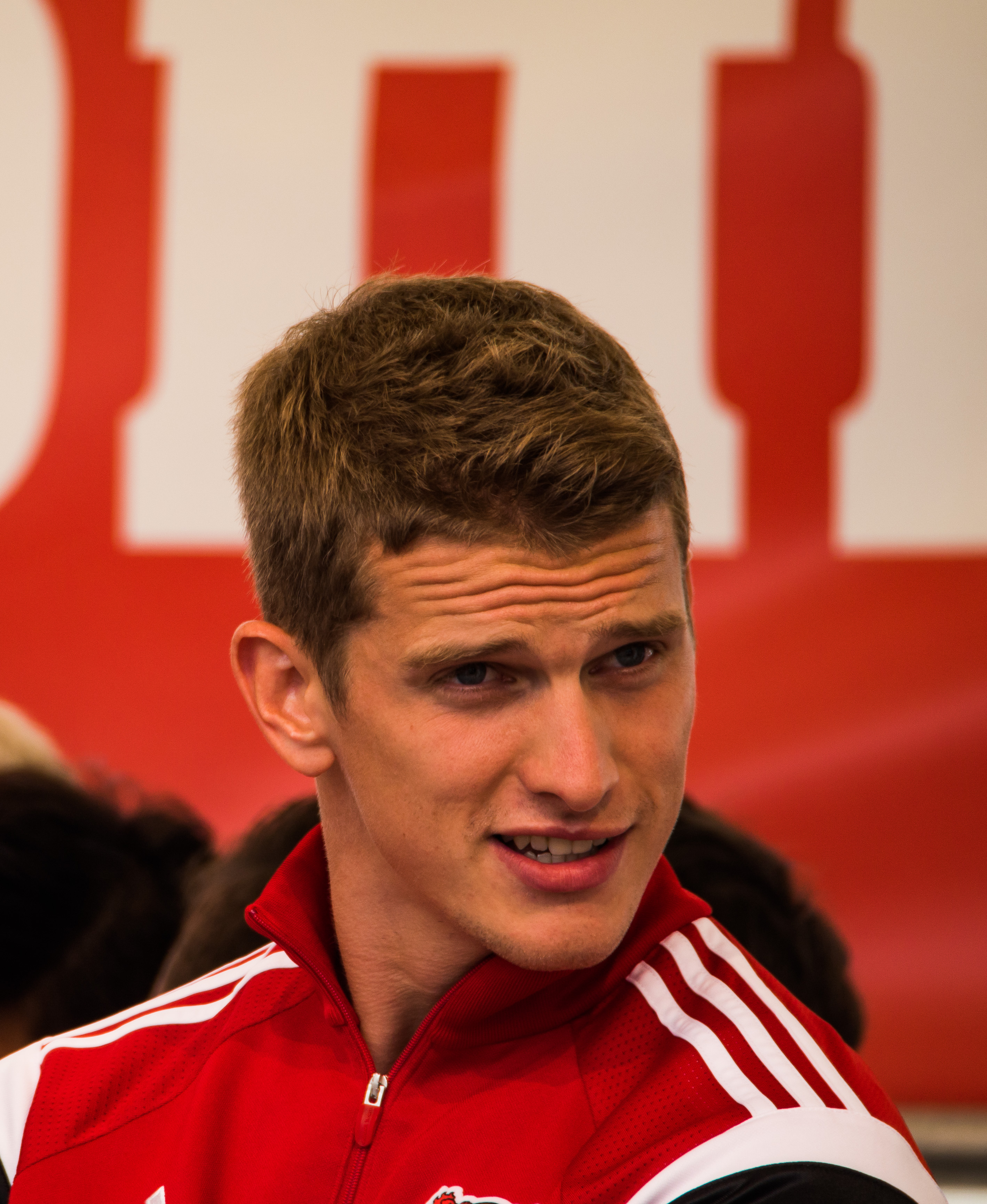 Lars Bender at the Bayer 04 Leverkusen presentation before the 2015/16 season